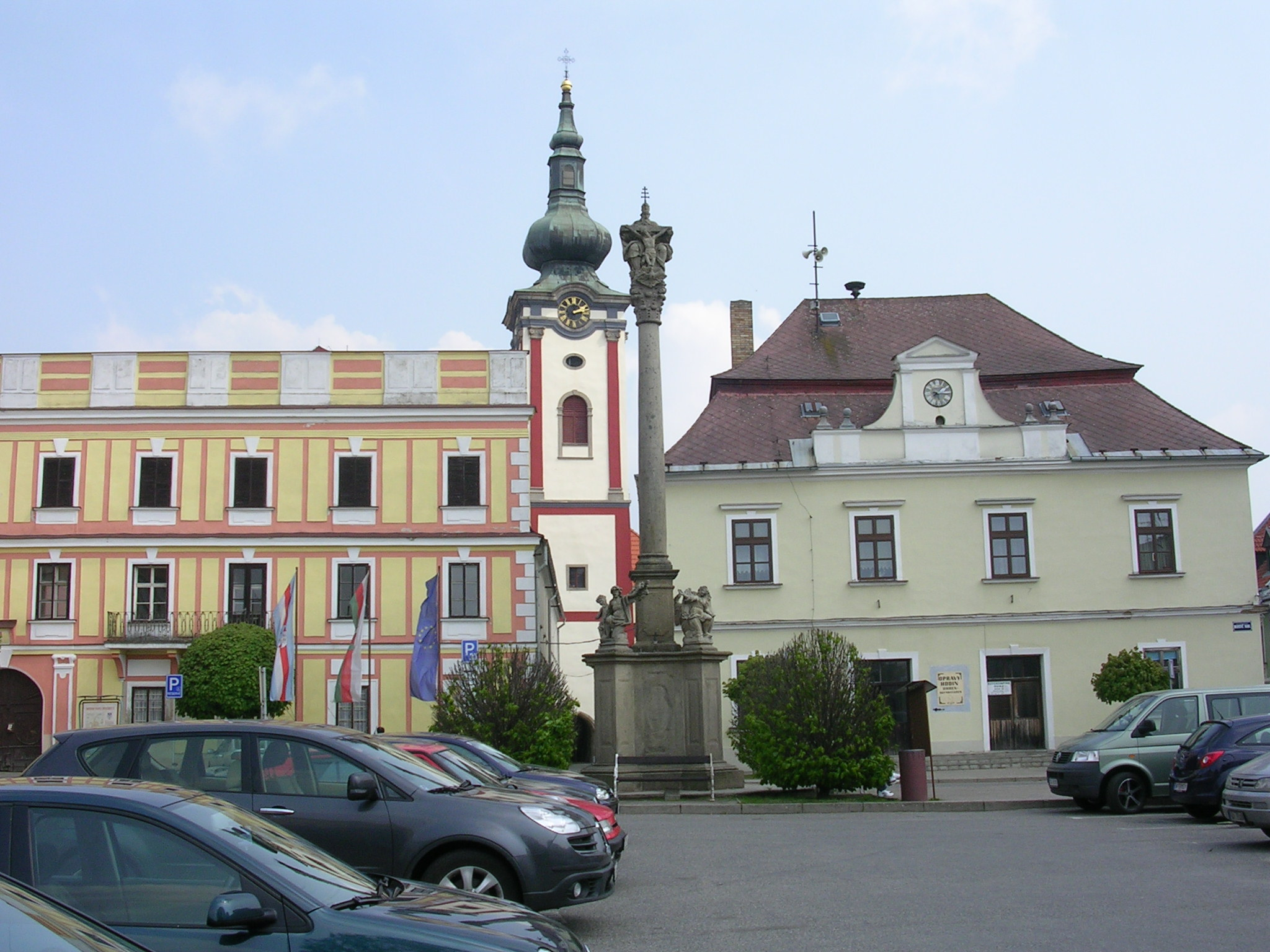 Nová Bystřice, South Bohemian Region, the Czech Republic.